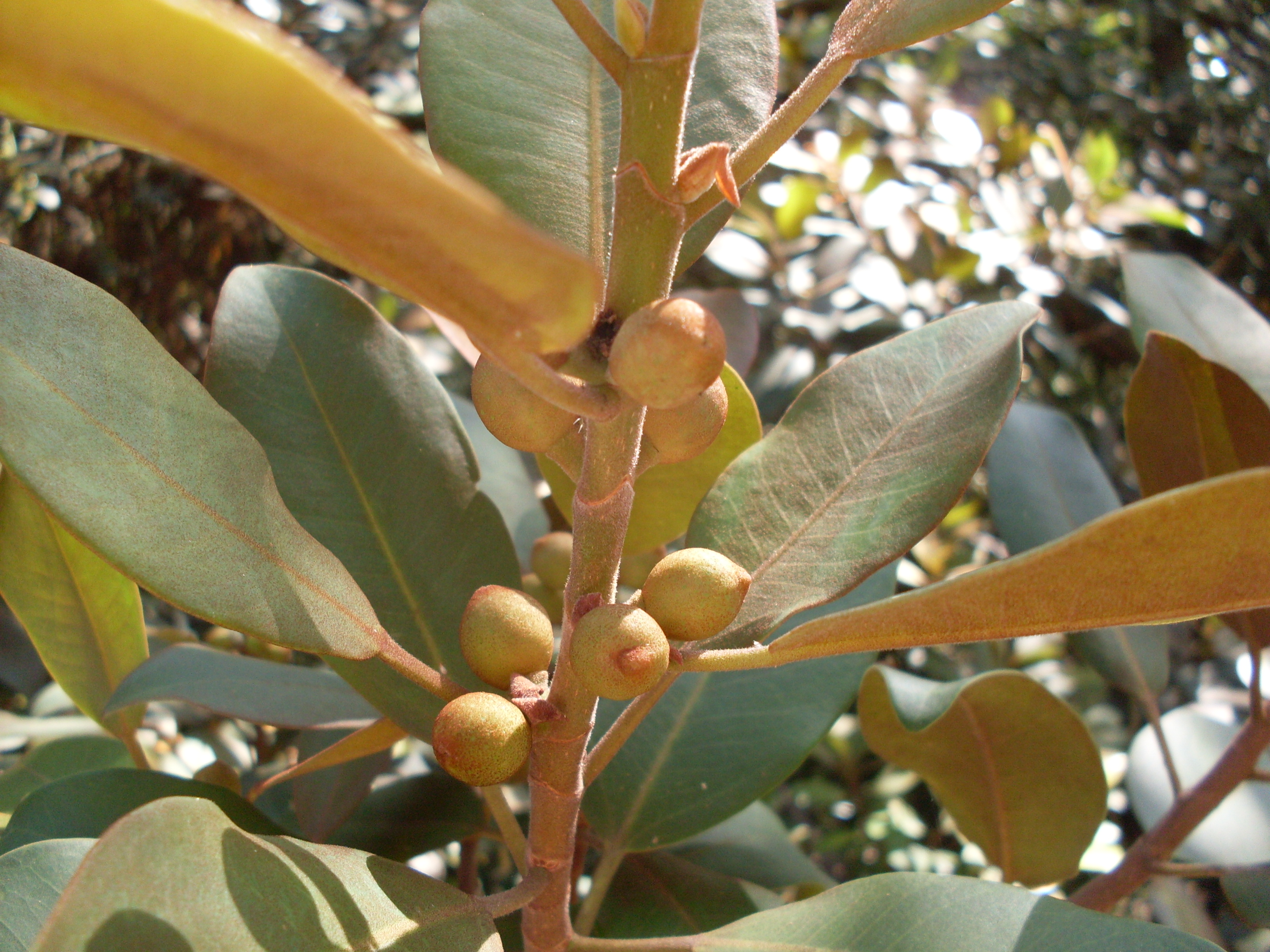 Fruit of a Port Jackson fig (Ficus rubiginosa) aka Rusty fig (from the colour of the leaves). Paruna Reserve, Como, NSW Australia, March 2009.